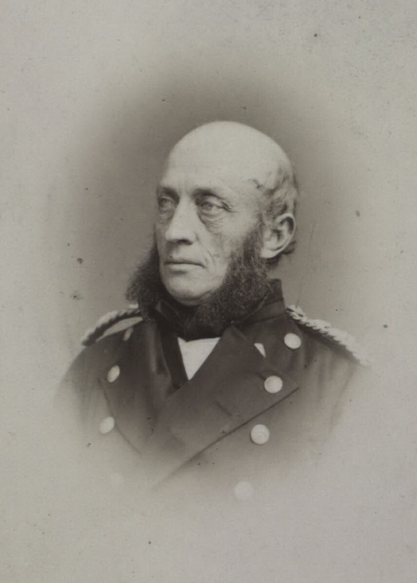 Hans Herman Steffen Grove (1814-1866), Officer of the Royal Danish Navy and Minister of the Navy